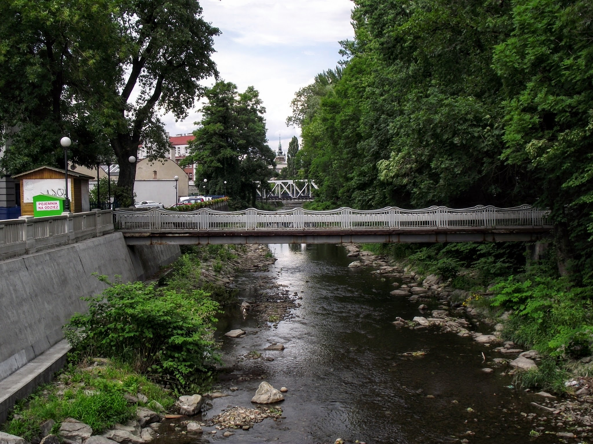 Biała River in Bielsko-Biała, Poland, view from PCK Street.